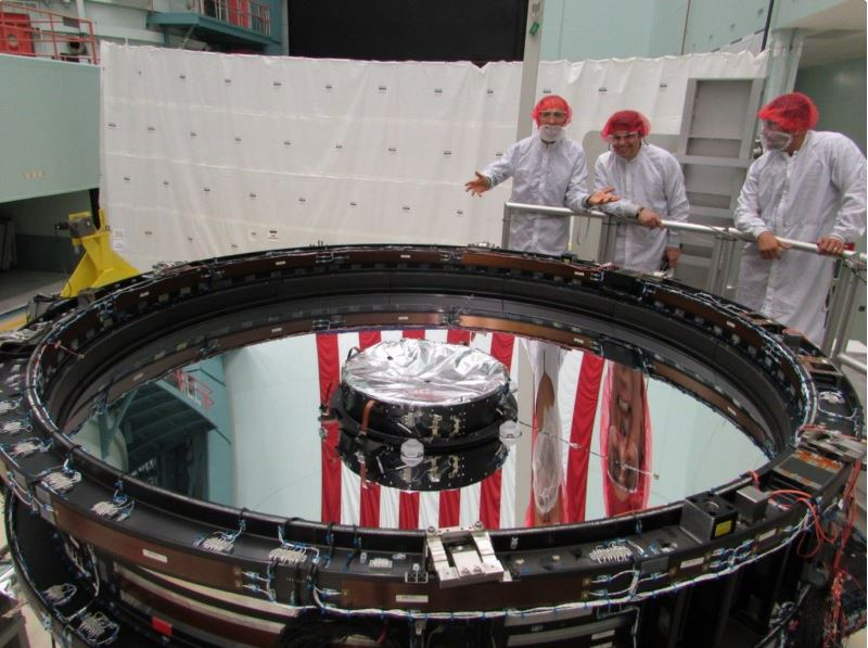 Optical Telescope Assembly of WFIRST from NASA